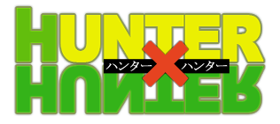 Hunter × Hunter logo, created in Photoshop. Fonts used: MS Mincho, Arial, Arial Black.